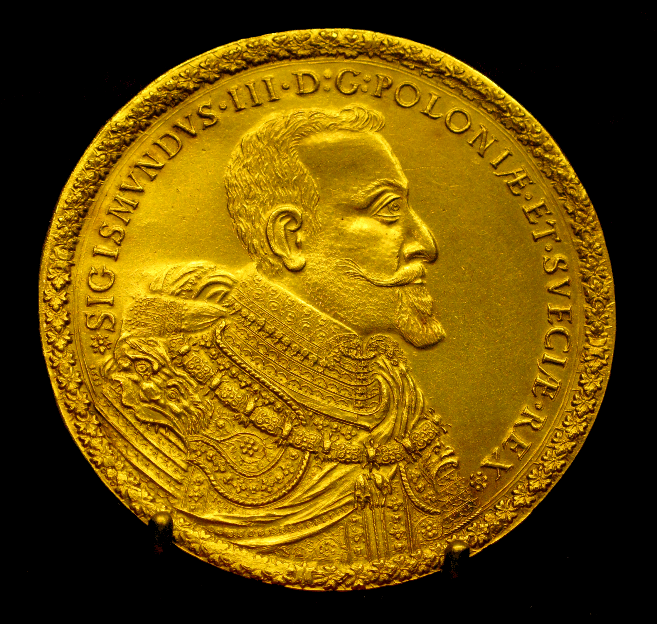 40 ducats of Sigismund III Vasa from 1621, 140 g